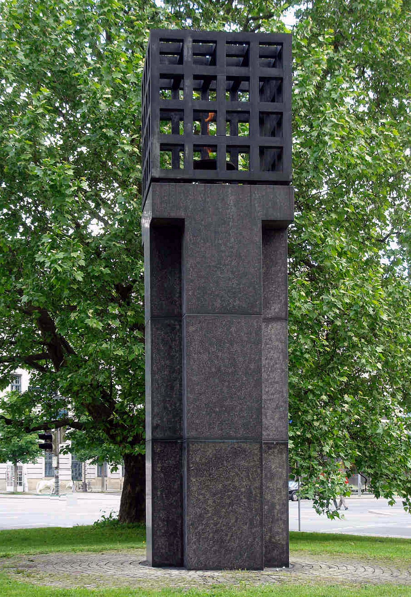 Munich Memorial for the Victims of Nazi-Dictature (1985) by Andreas Sobeck